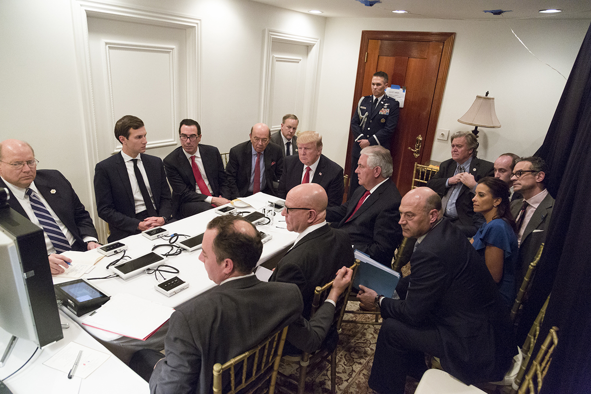 President Donald Trump receives a briefing, Thursday, April 6, 2017, on a military strike on Syria, from his National Security team, including a video teleconference with U.S. Secretary of Defense, Gen. James Mattis, and Chairman of the Joint Chiefs of Staff, Gen. Joseph F. Dunford, in a secured location at Mar-a-Largo in Palm Beach, Florida. (Official White House Photo by Shealah Craighead) Editor’s Note: Items in this image have been altered for security purposes.